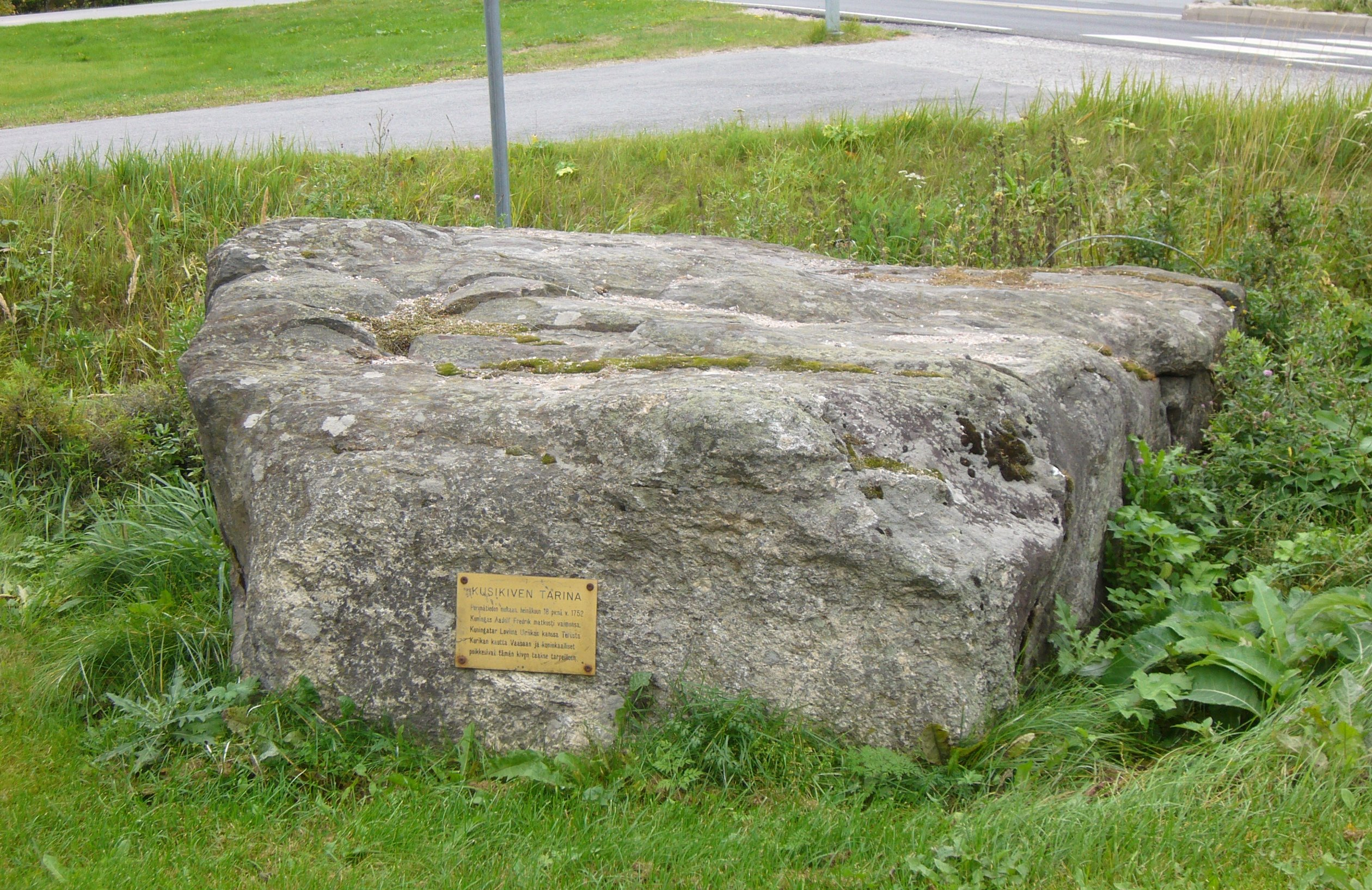 Kusikivi in Kurikka, Finland.